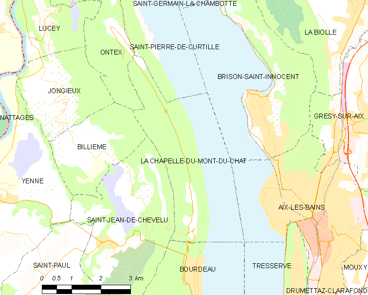 Map of French municipality